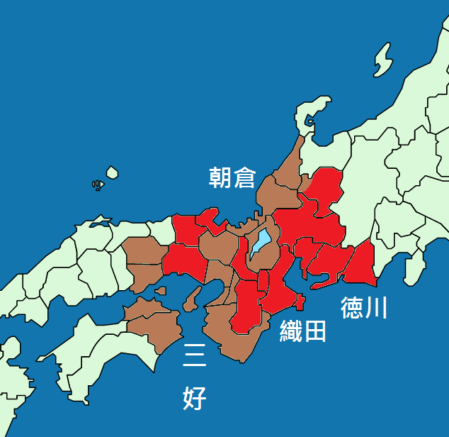 Sengoku period 1570 besiege